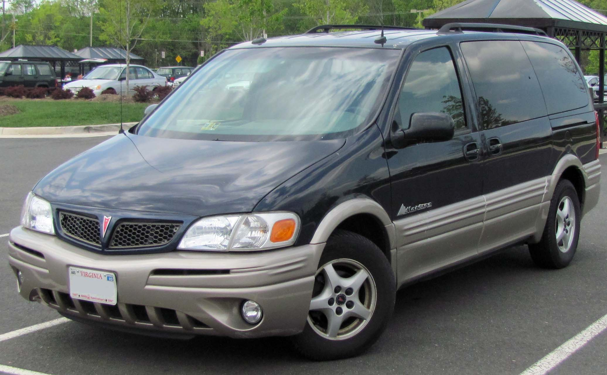 Pontiac Montana photographed in Gainesville, Virginia, USA.